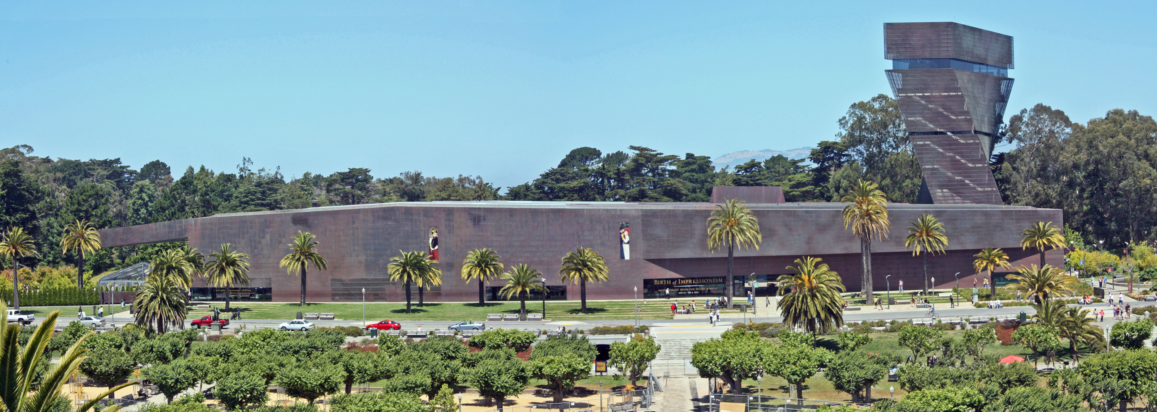 The de Young Museum, Golden Gate Park, San Francisco, California, as viewed from the roof of the California Academy of Sciences (with Mount Tamalpais in the distance). The building is clad in copper; the tower rises 144 feet (44 m).